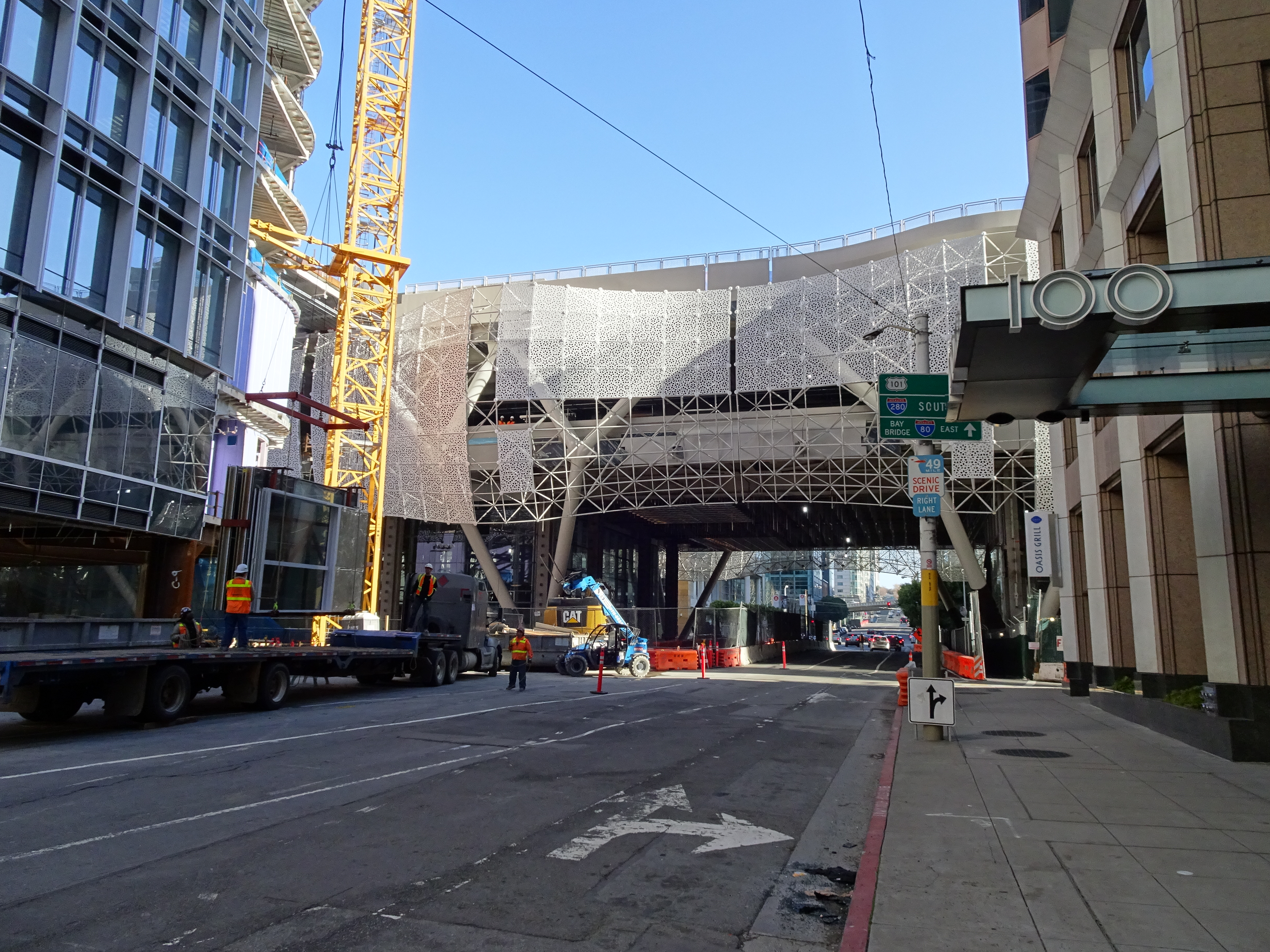 Construction of the Transbay Transit Center on 1st street in San Francisco as well as the base of a crane and truck with glass for the Salesforce Tower